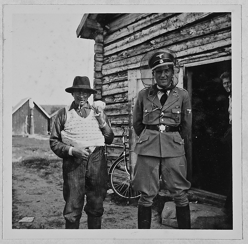 Image from "Photo Album from Terboven's journey to Nothern Norway and Finland 10–27 July 1942" (Mit dem Reichskommissar nach Nordnorwegen und Finnland 10. bis 27. Juli 1942), 375 images uploaded to www. by Riksarkivet (National Archives of Norway) 2012. See scanned album here